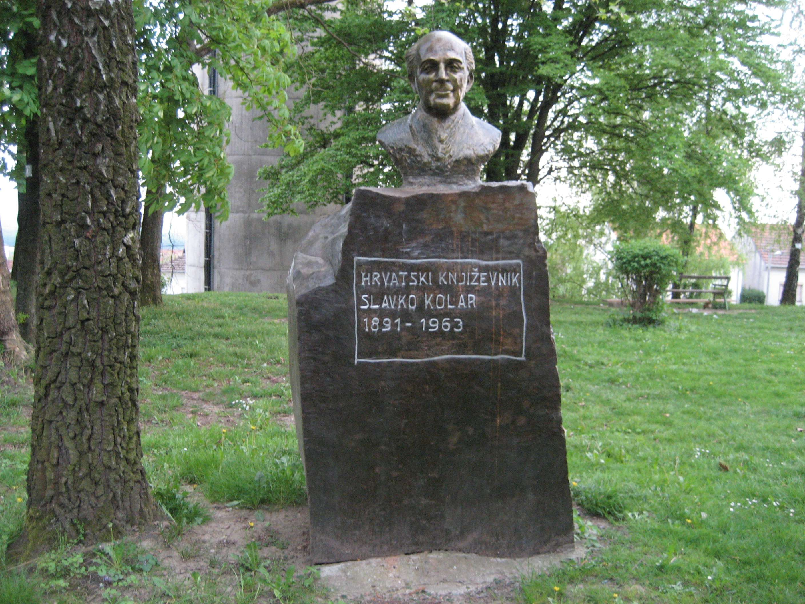 Slavko Kolar Büste, Cazma